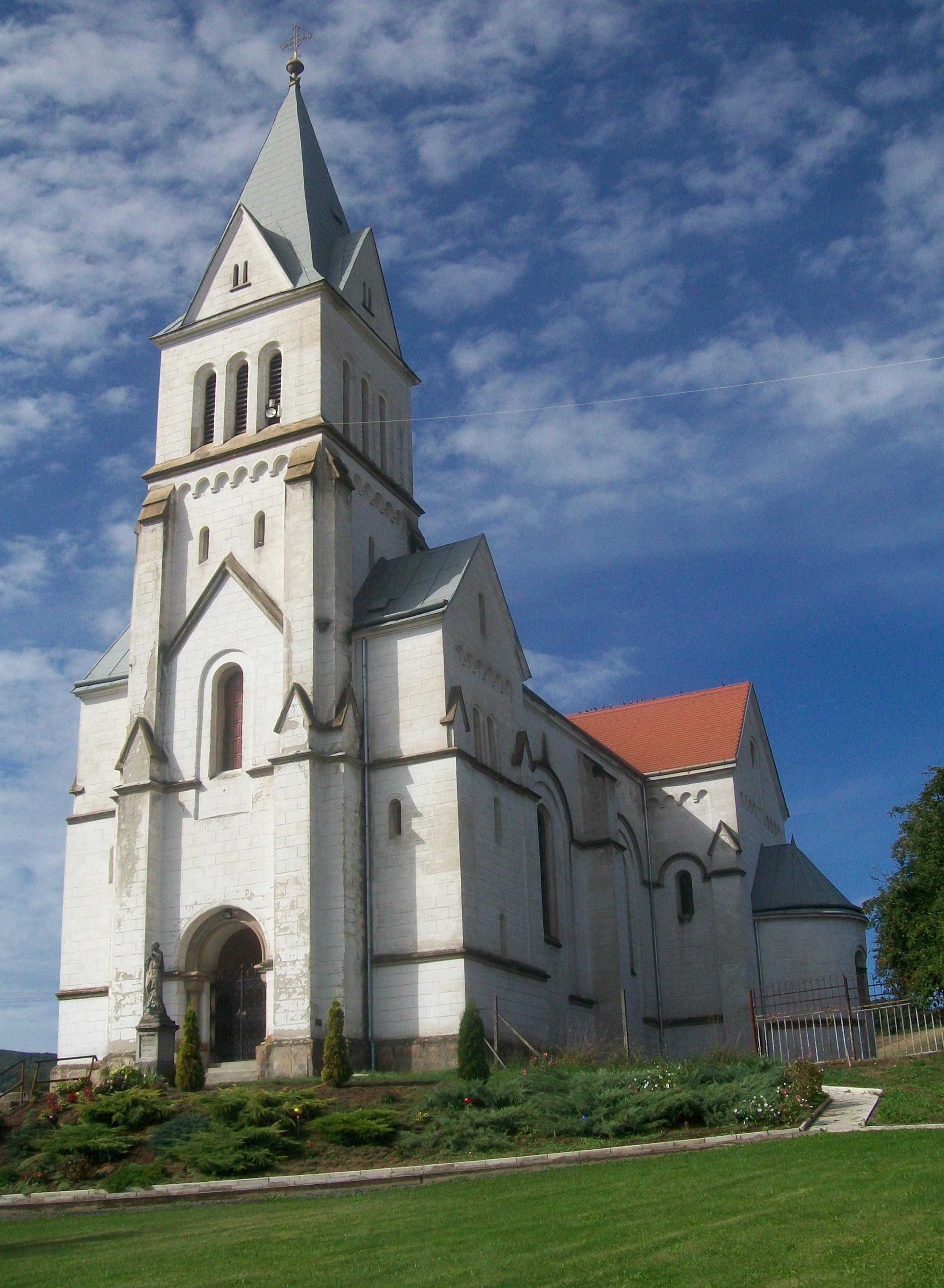 Neo-Romanesque church of St. Michael from 1868 in the village Šurice